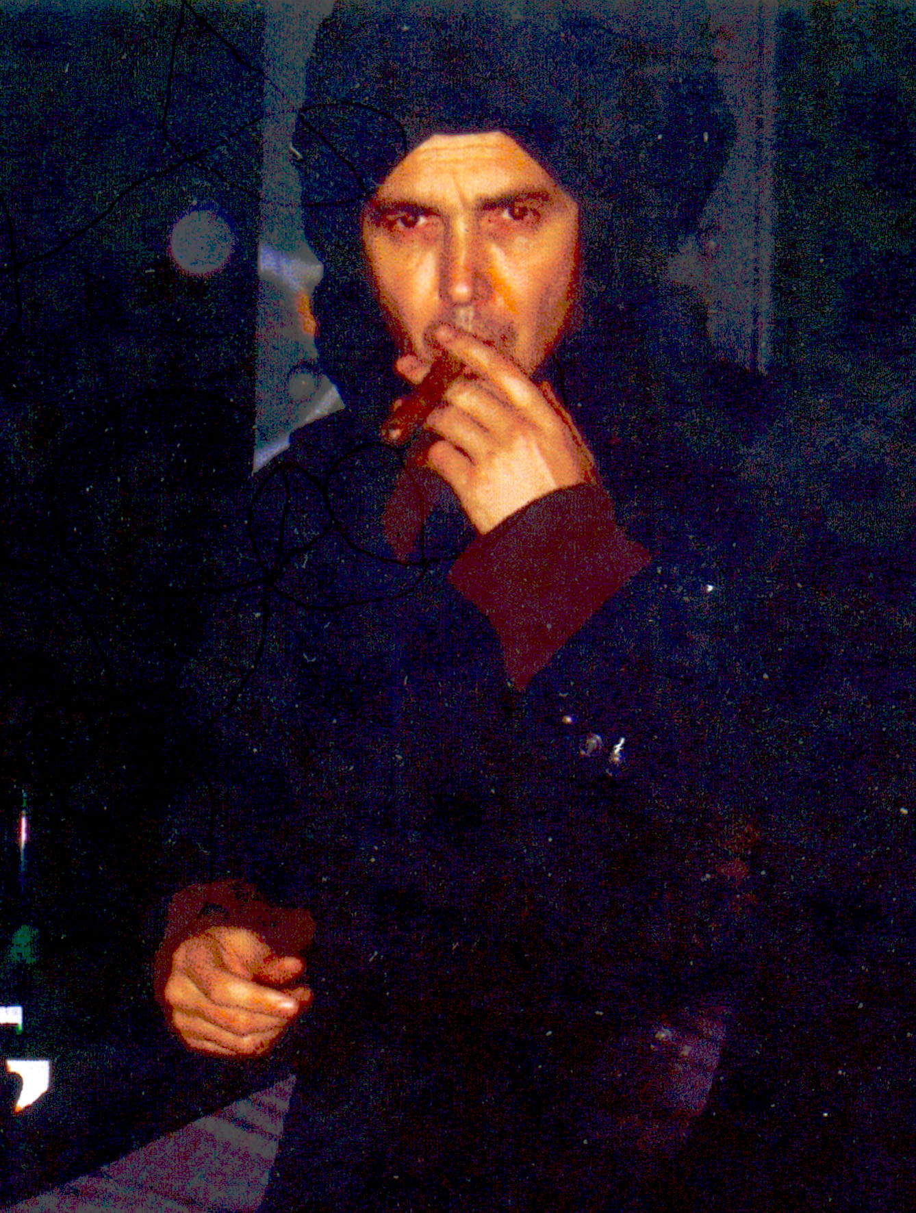 Stefan Bohnenberger, Beirut 2009